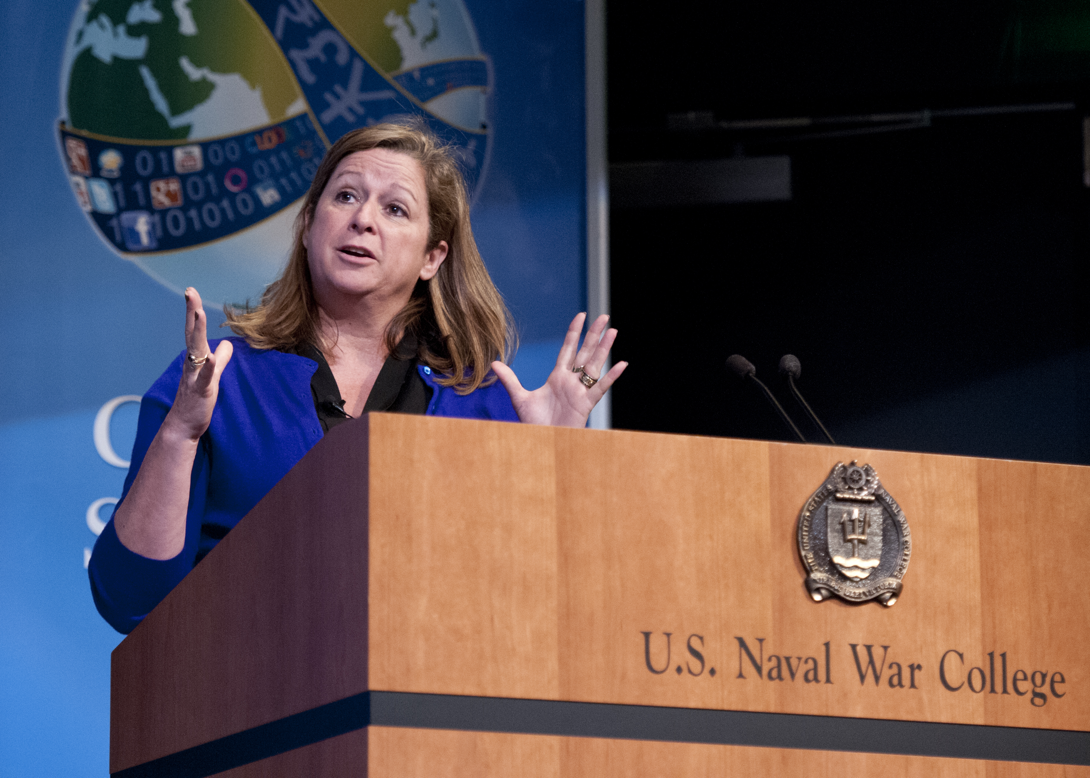 120613-N-LE393-021 NEWPORT, R.I. (June 13, 2012) Abigail Disney, executive producer of the documentary film series “Women, War and Peace,” gives a keynote address during the 2012 Current Strategy Forum at the U.S. Naval War College. This year’s forum explores global trends and the implications they have on national policy and maritime forces. (U.S. Navy photo by Mass Communication Specialist 2nd Class Eric Dietrich/Released)